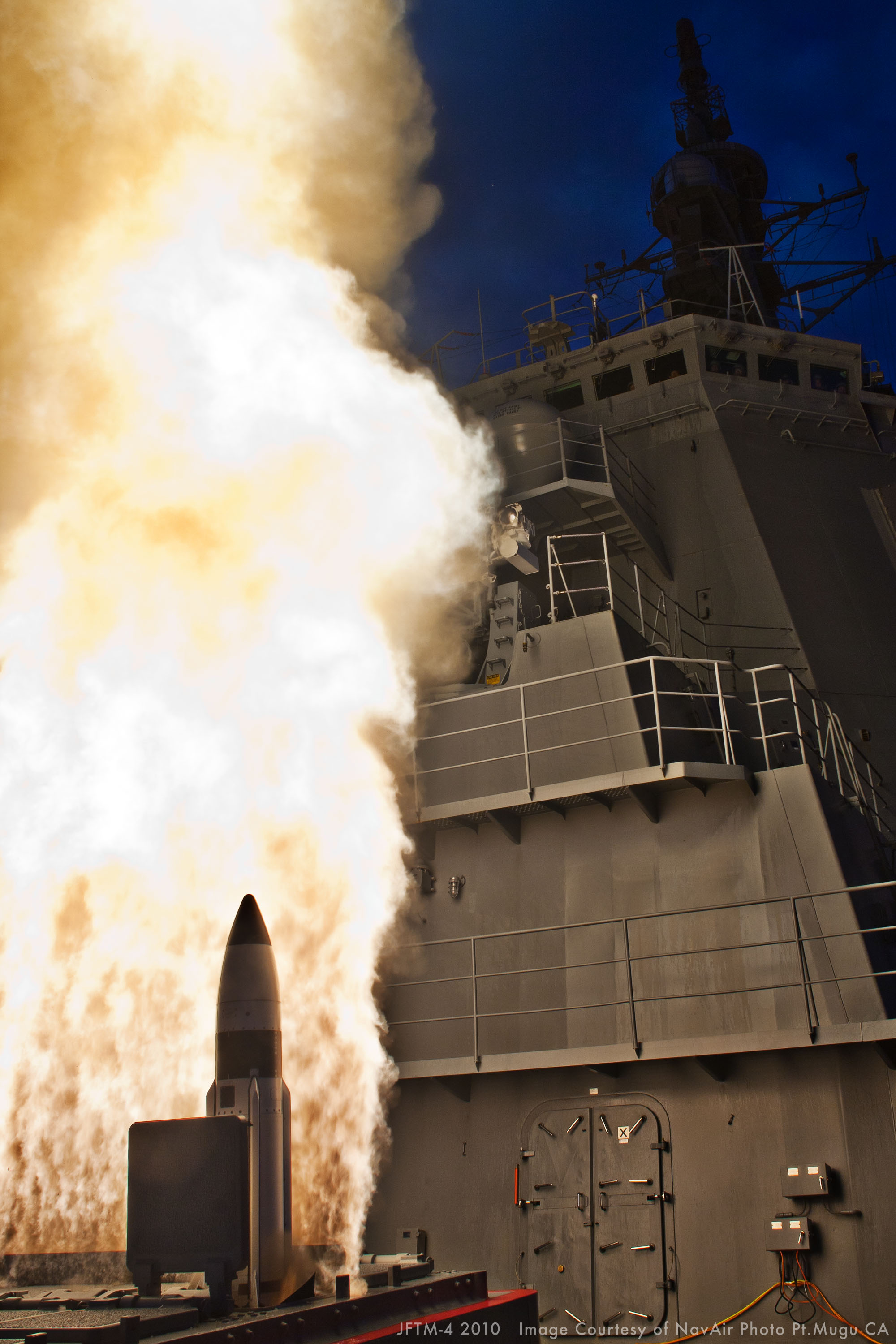 PACIFIC OCEAN (Oct. 29, 2010) An SM-3 (Block 1A) missile is launched from the Japan Maritime Self-Defense Force destroyer JS Kirishima (DD 174), successfully intercepting a ballistic missile target launched from the Pacific Missile Range Facility at Barking Sands, Kauai, Hawaii. The test was conducted as a Japan and U.S. joint exercise, with the U.S. Navy Aegis guided-missile cruiser USS Lake Erie (CG 70) and the U.S. Navy Aegis guided-missile destroyer USS Russell (DDG 59) detection and tracking cooperation. (U.S. Navy photo/Released)